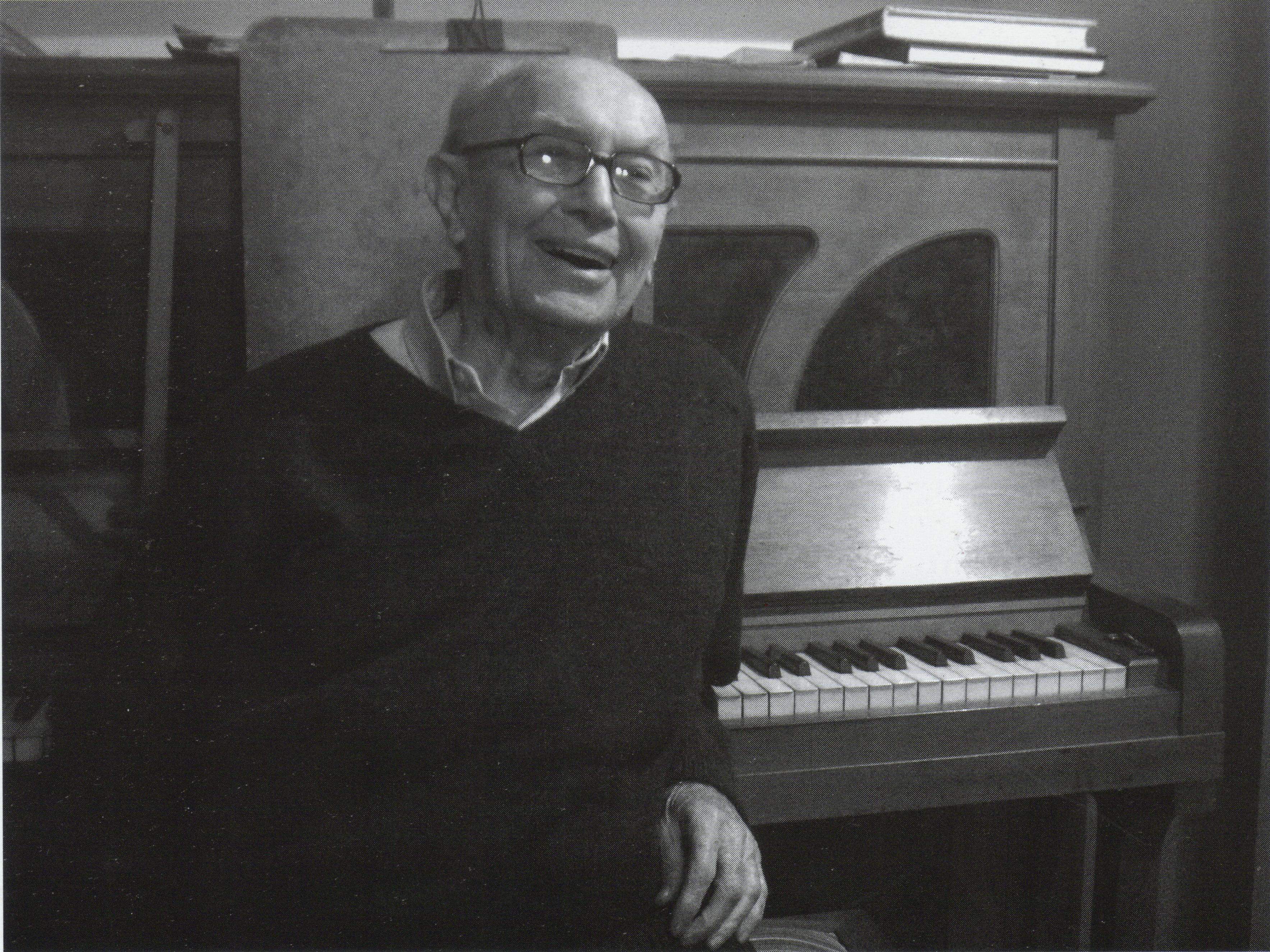 The Peruvian composer Enrique Iturriaga in the library of the National Conservatory of Music in Perú.